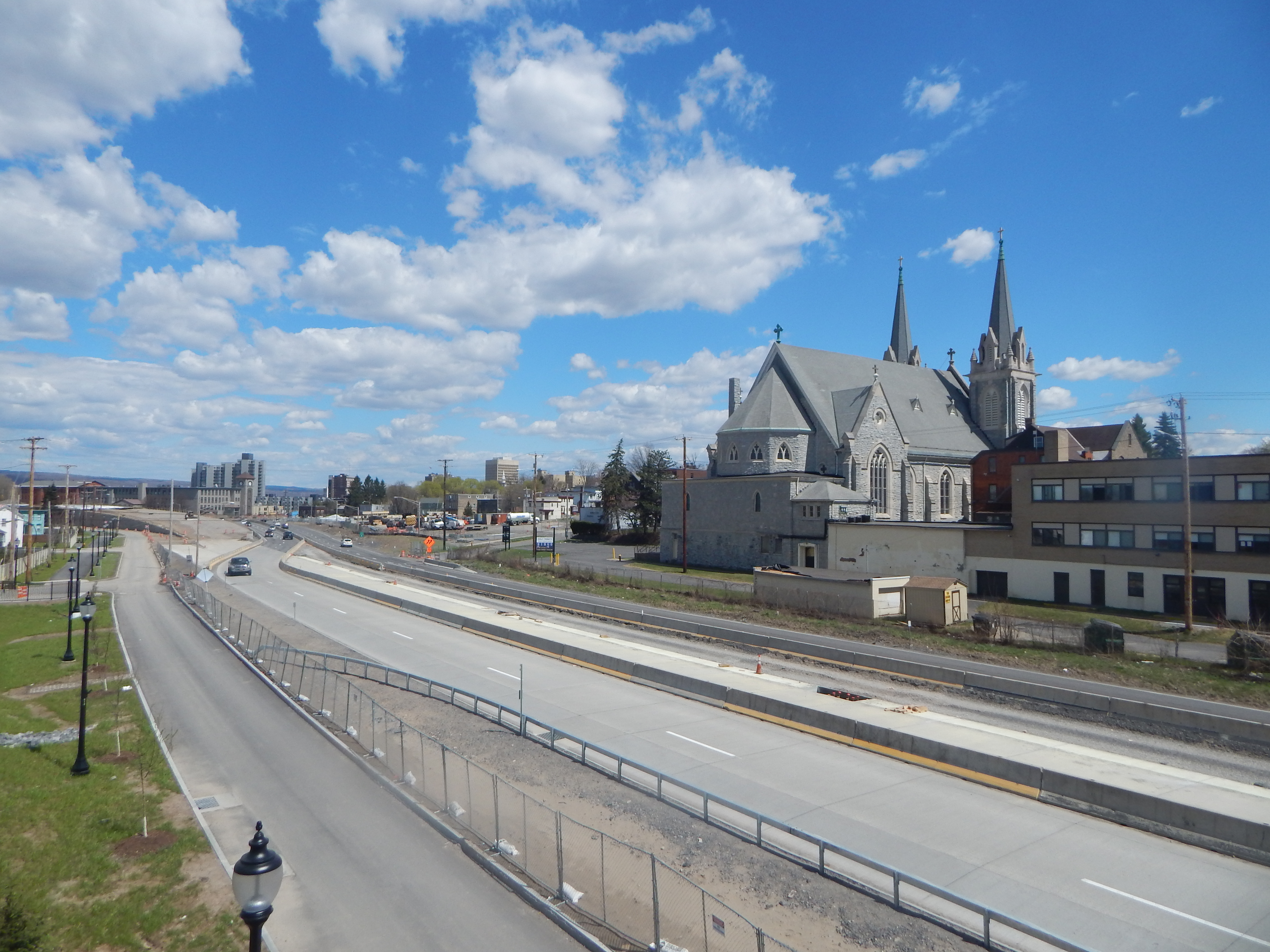 Infrastructure projects, such as the reconstruction of the North-South Arterial Highway and construction of New York State Route 840 have continued to provide jobs for area citizens.